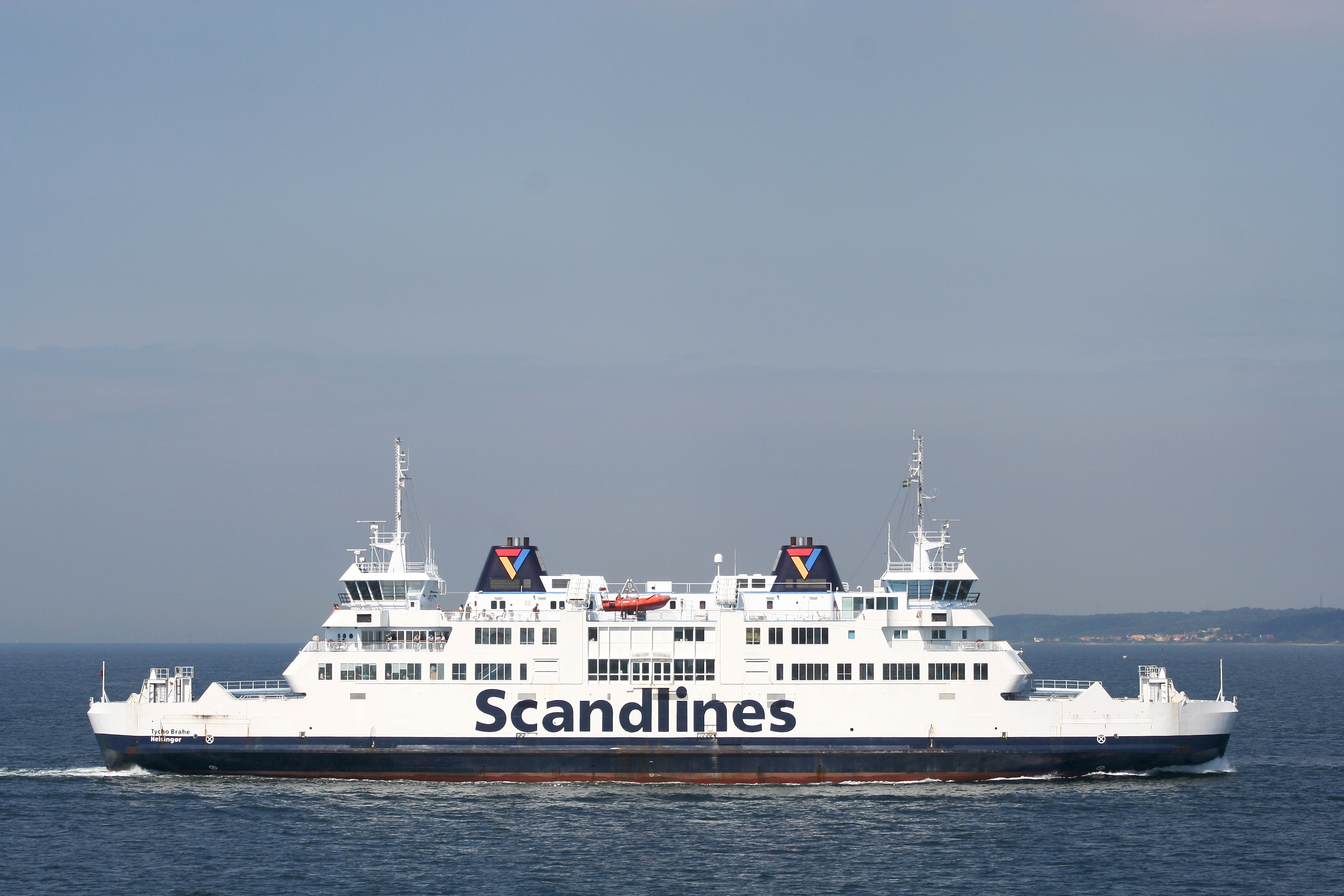 Scandlines ferry 'Tycho Brahe' arriving at Helsingør, Denmark